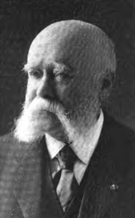 Photograph of Stewart L. Woodford (1835-1913), Lieutenant Fovernor of New York, United States Congressman